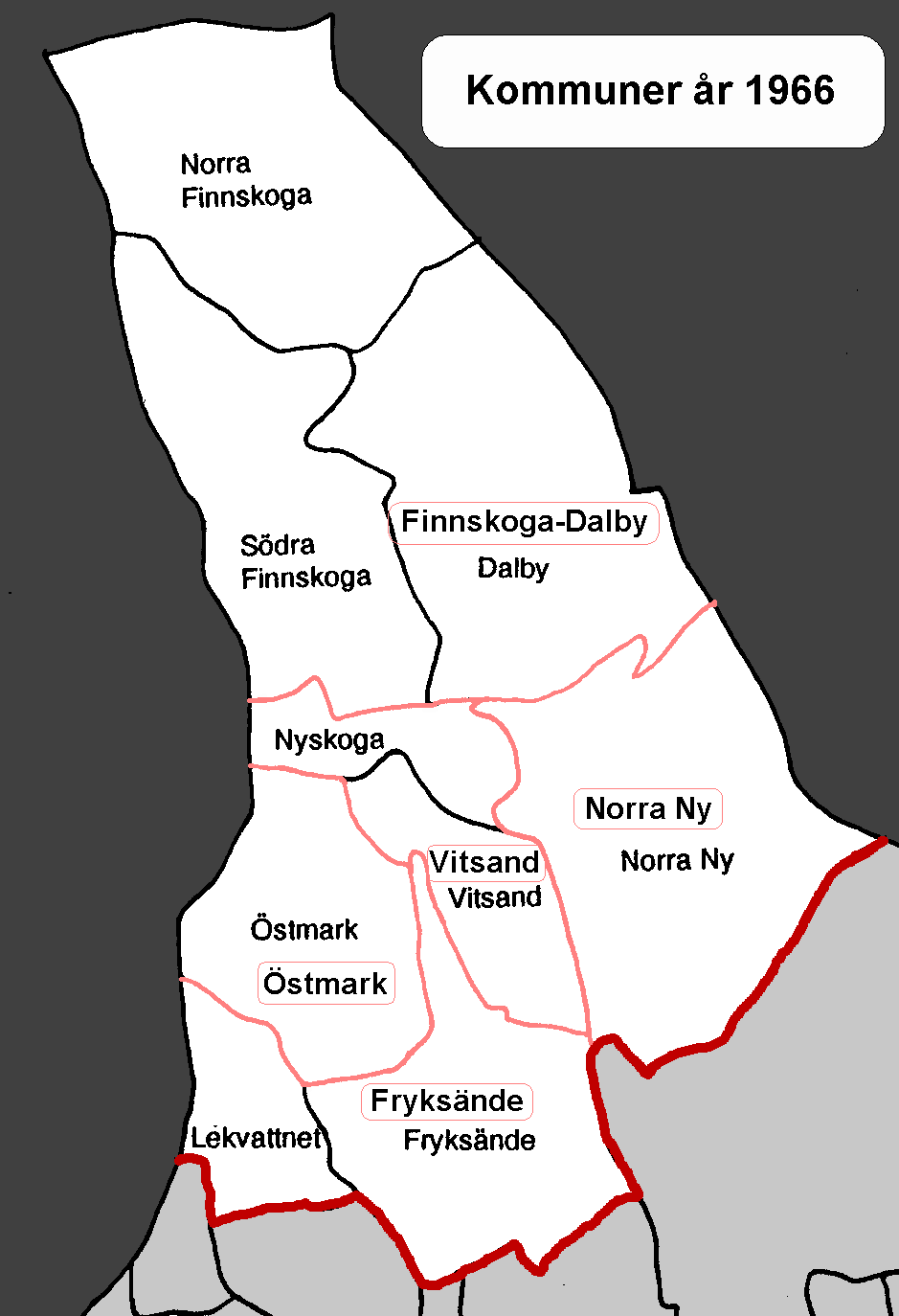 old muncipal borders of Torsby municipality